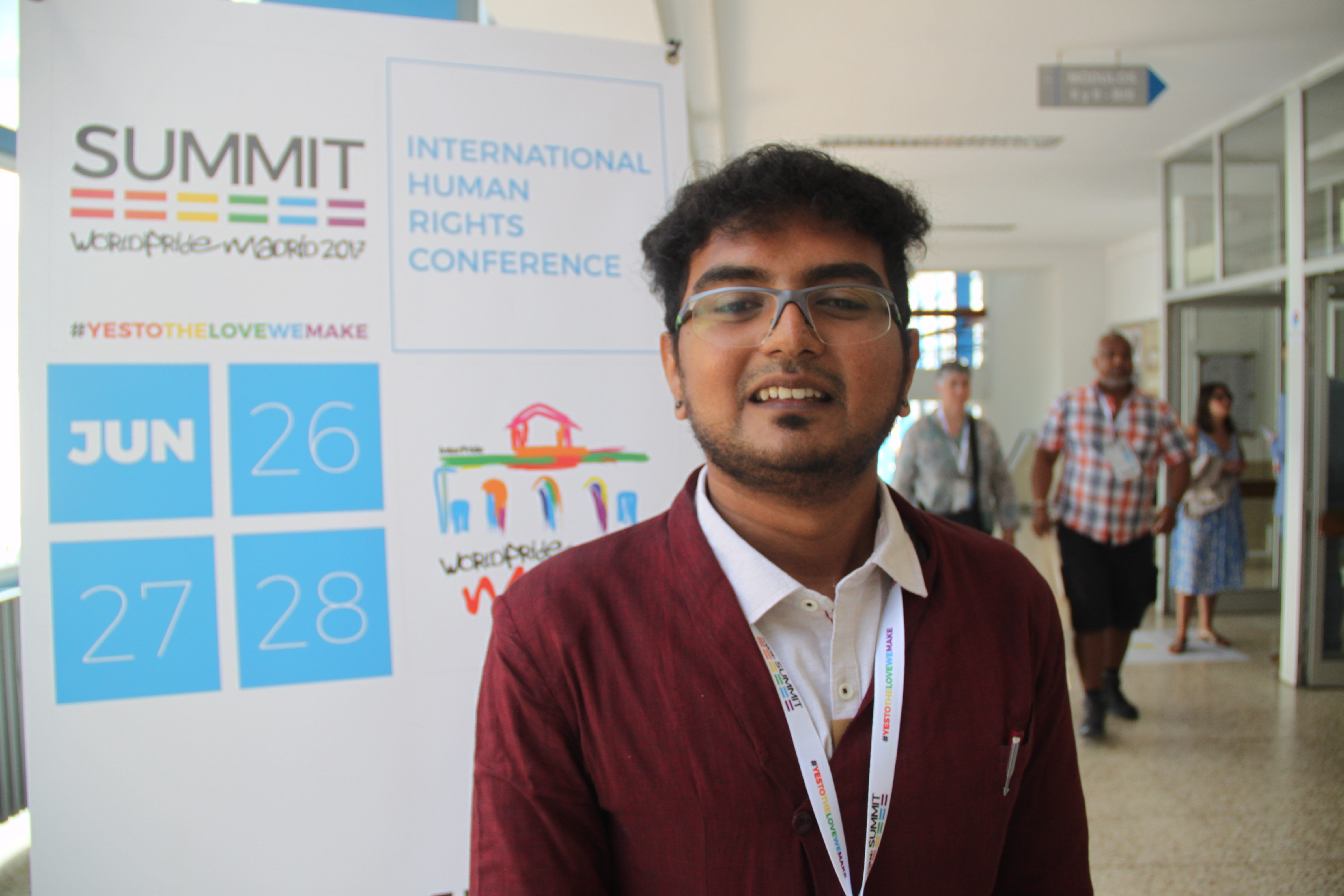 Gopi Shankar Madurai at WorldPride SUMMIT Madrid